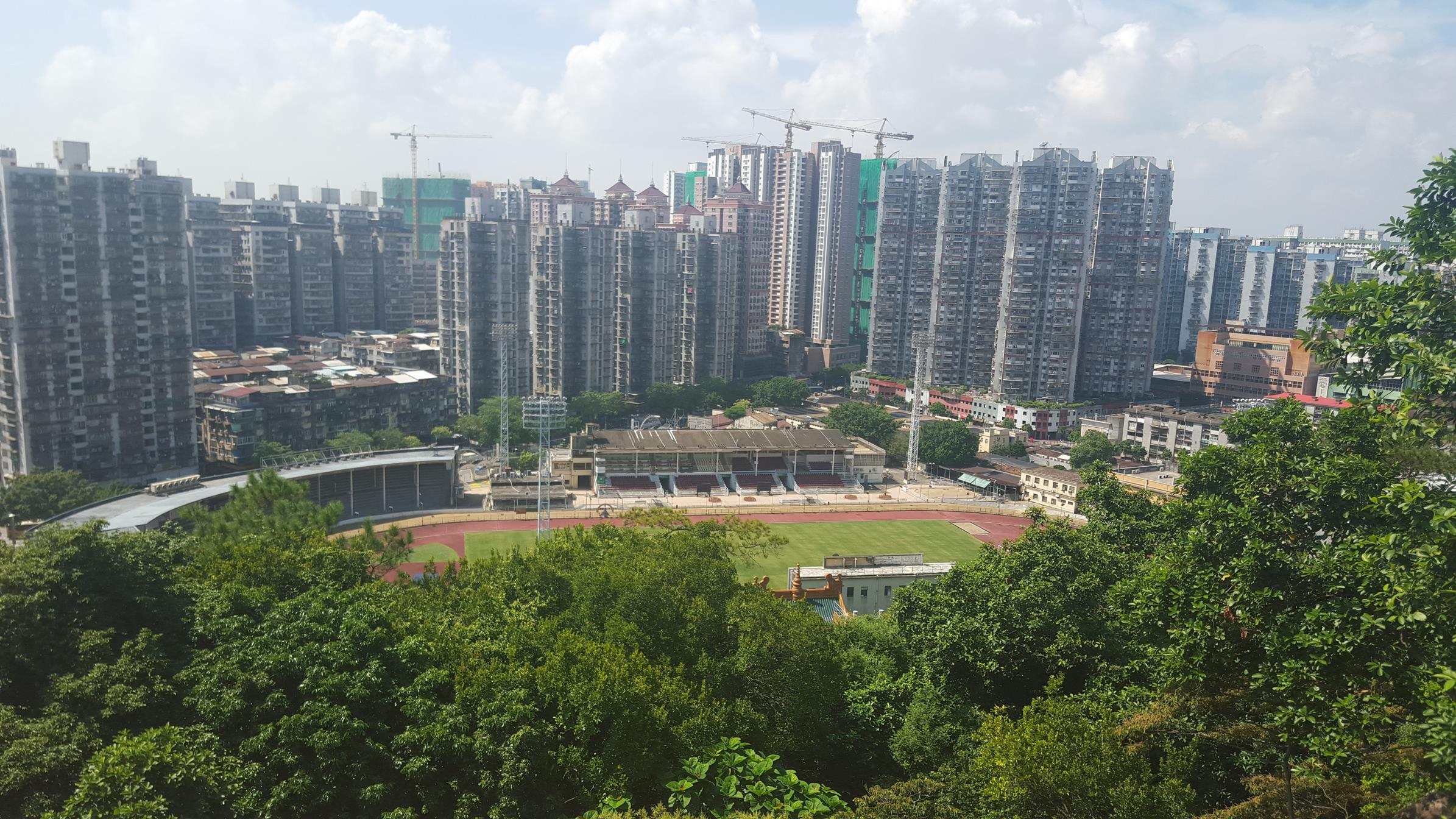 Mong Ha Hill Municipal Park